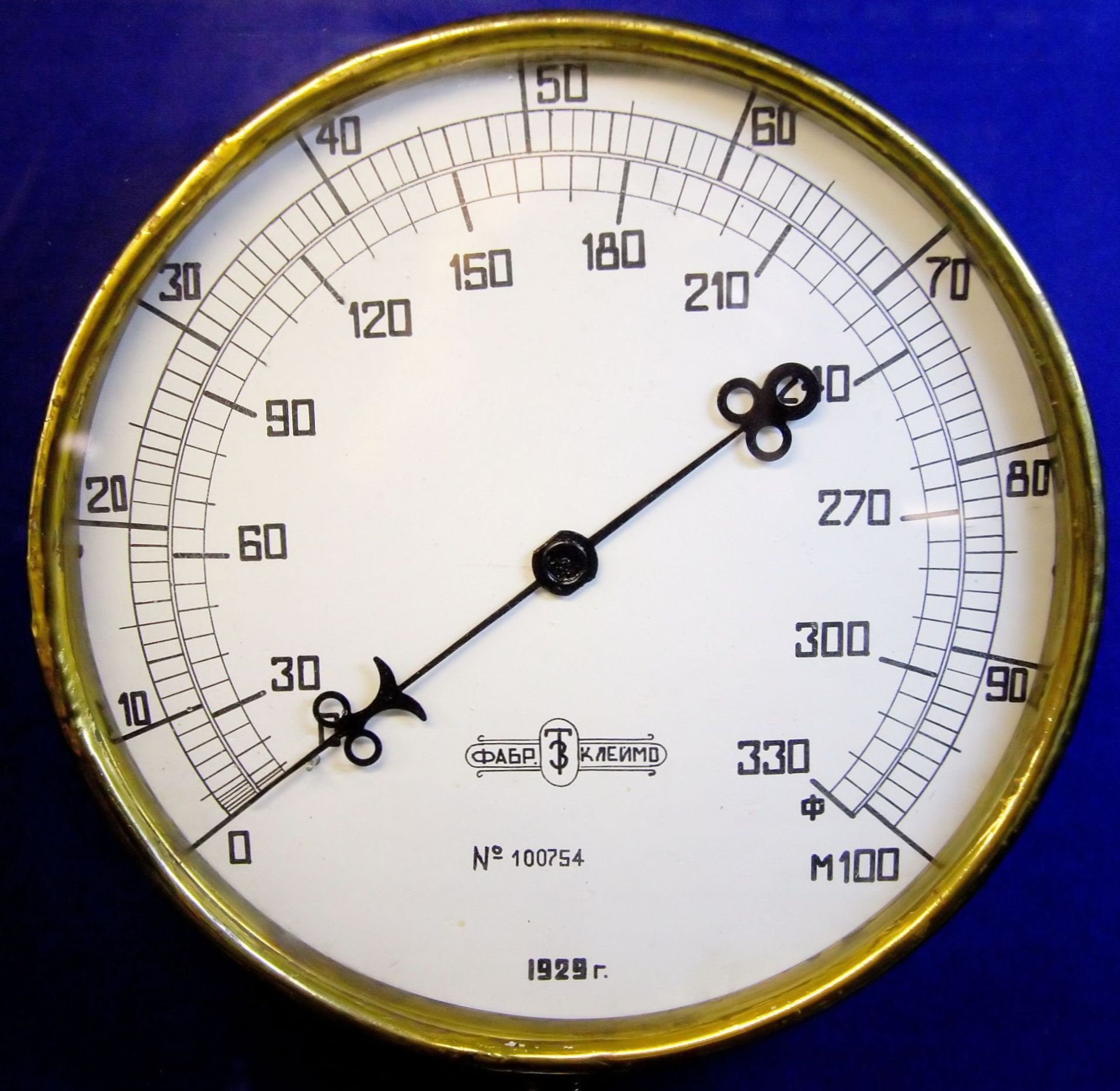 Depth gauge of soviet submarine D-2, Dekabrist class, 1929.